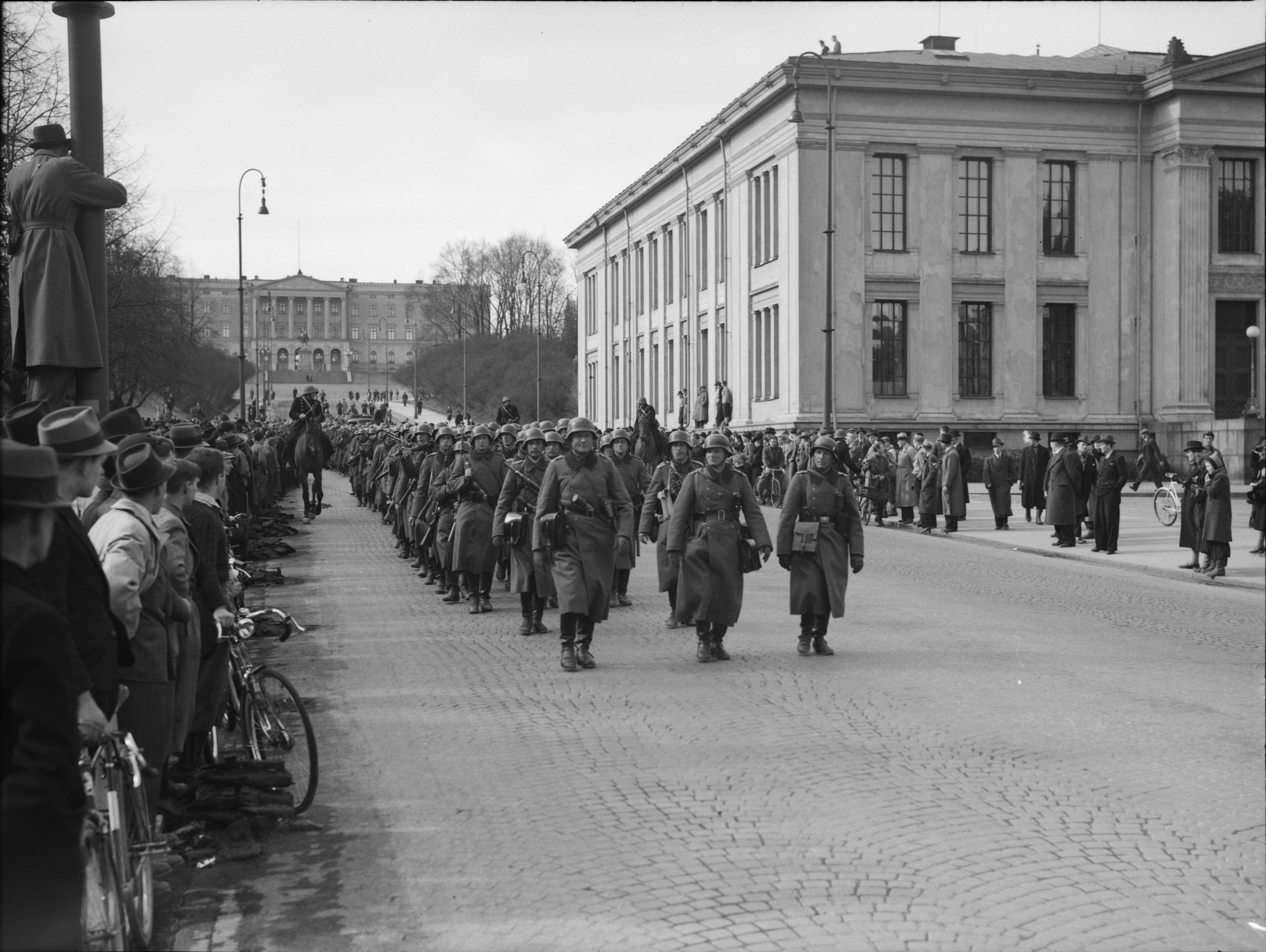 German soldiers marching through Oslo on 9 April 1940. The picture is also significant because of the boy on the bike to the left in the picture, traditionally believed to depict Gunnar Sønsteby. This has however been disputed, as Erik Gjems-Onstad claimed that it was instead him. Varden Morgenbladet